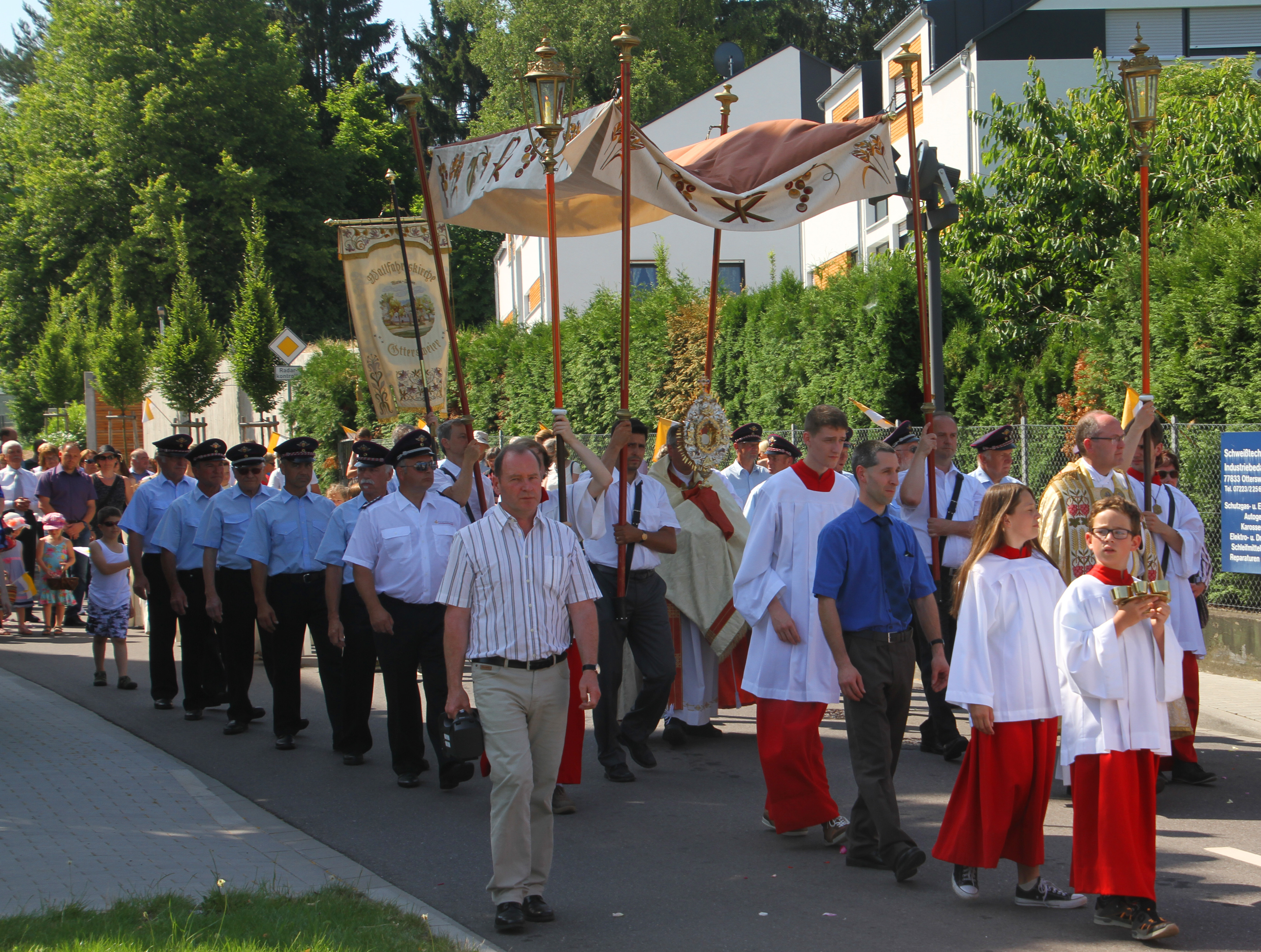 Corpus Christi procession in Ottersweier (Baden) 2017.